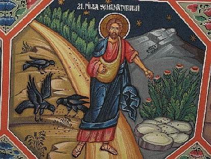 An icon depicting the Sower. In Sts. Konstantine and Helen Orthodox Church, Cluj, Romania.